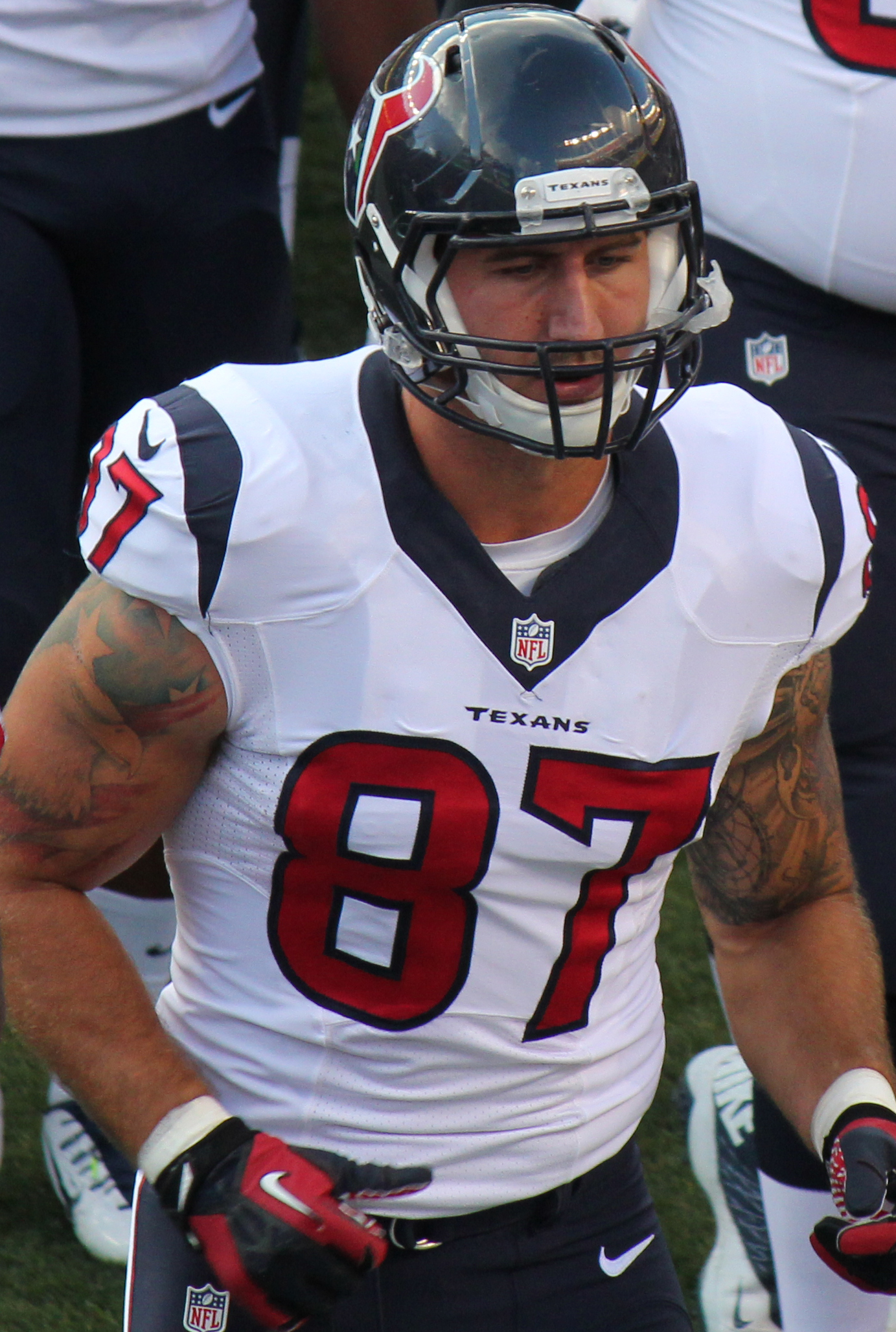 C. J. Fiedorowicz, a player on the National Football League.